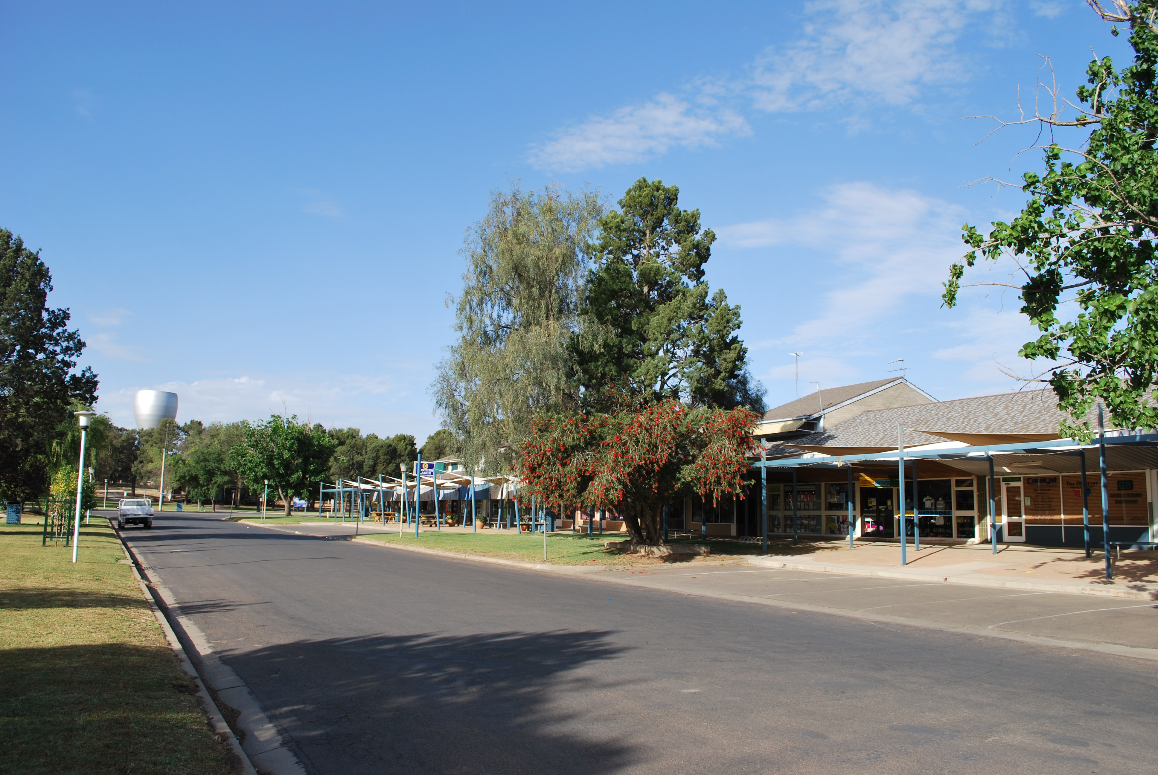 Main street of Coleambally, New South Wales. Brolga Place, facing north, with shops on the right, and the distinctive wine glass water tower in the background.